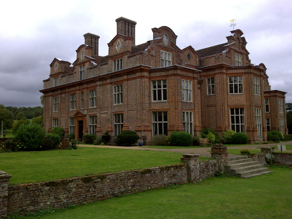 Brooem Park, Barham, Canterbury, Kent, England. Home of Lord Kitchener